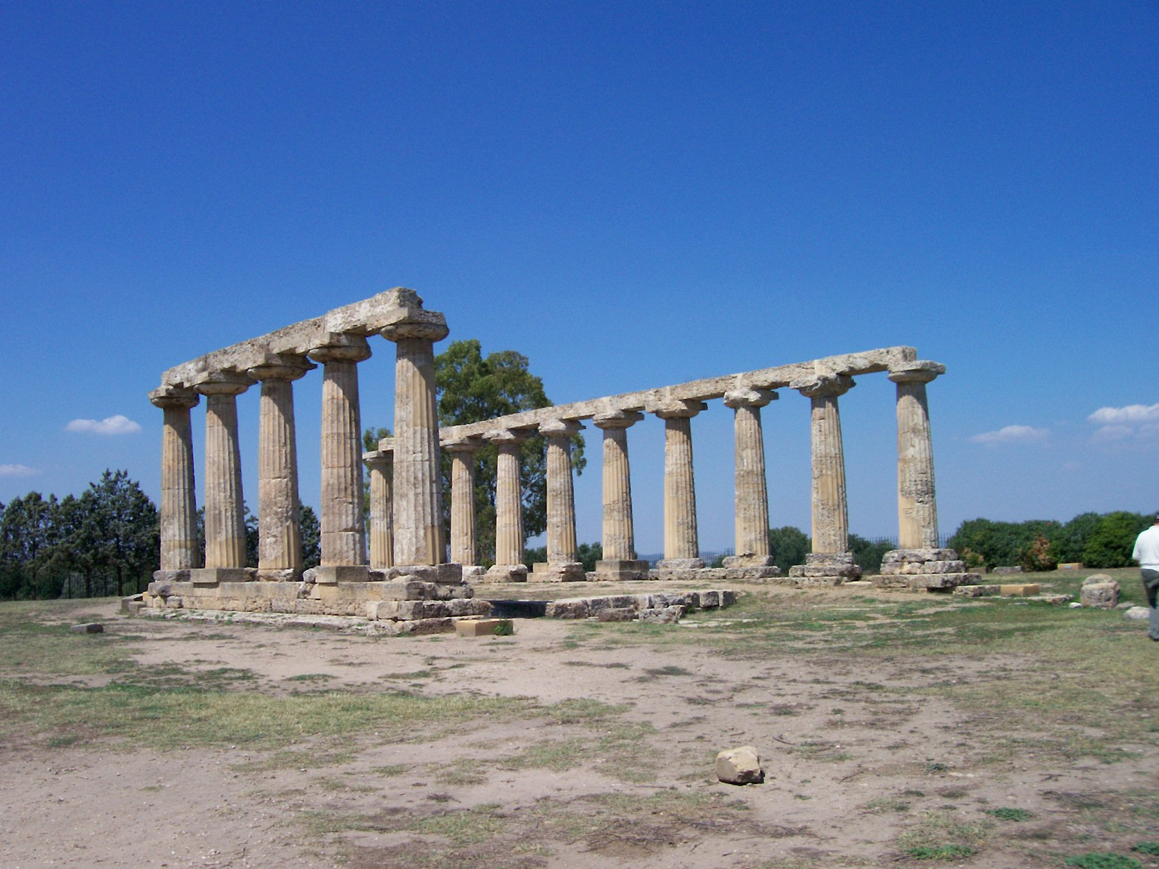 The Temple of Hera at Metapontum